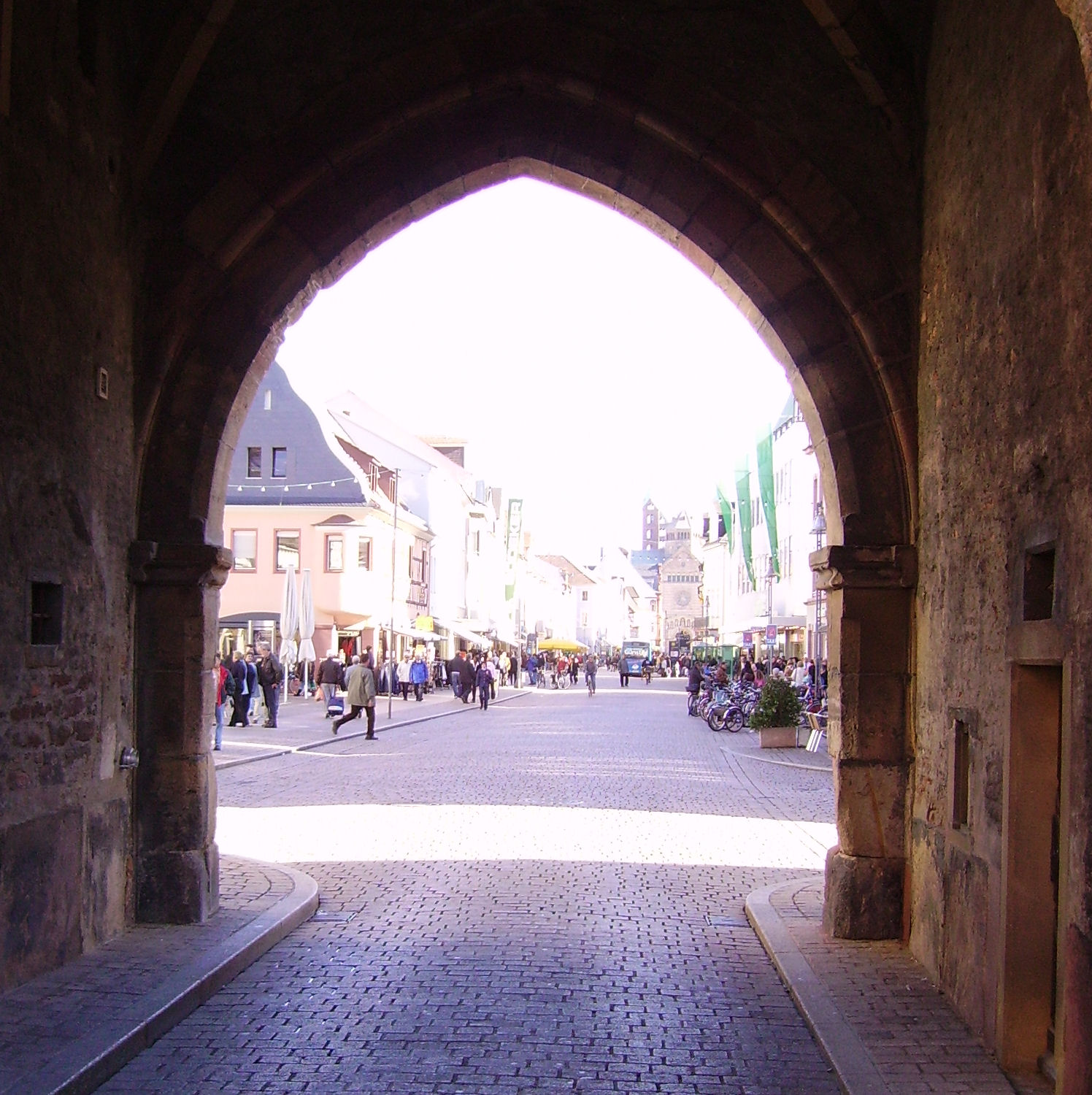 Altpörtel (gate) in Speyer, Germany